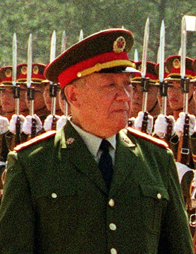 Minister of National Defense Gen. Chi Haotian (left) escorts Secretary of Defense William S. Cohen (right) as he inspects the troops during an armed forces welcoming ceremony at the Ministry of National Defense Headquarters in Beijing, China, on July 12, 2000. Cohen is visiting Beijing, Shanghai and Sydney, Australia as part of a seven day trip to the Western Pacific.